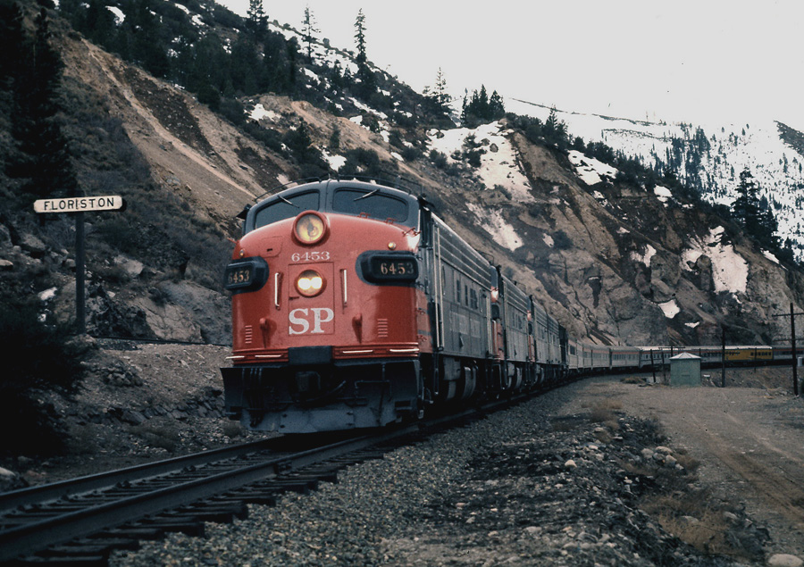 Pacific Rail Society Special from LA to Reno seen at Floriston, CA Feb 1971